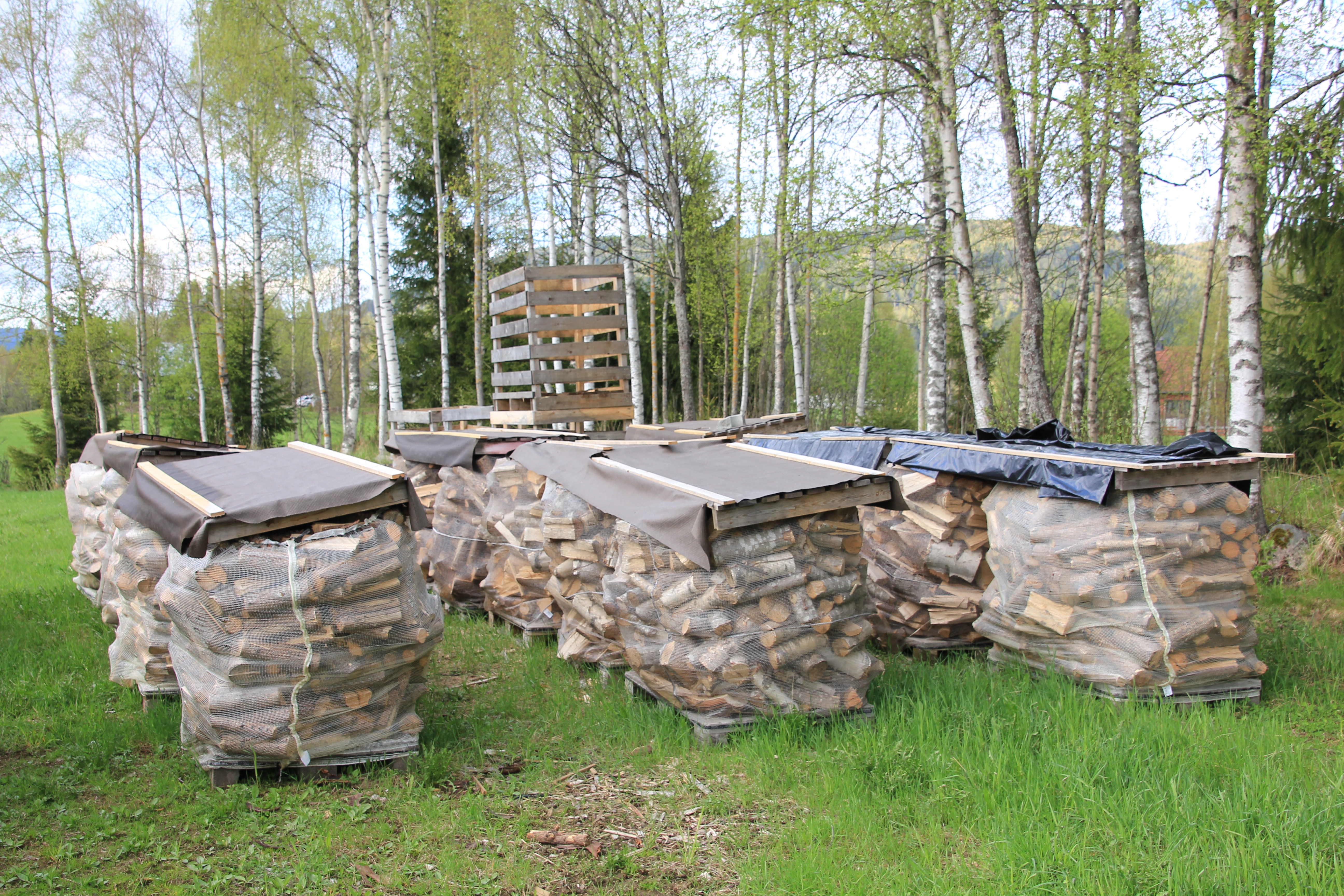 Wood in big wood bags drying.